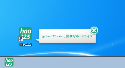 Installation of Freefilesync has an option to "make Hao123 your homepage". It is a way to thank the author.